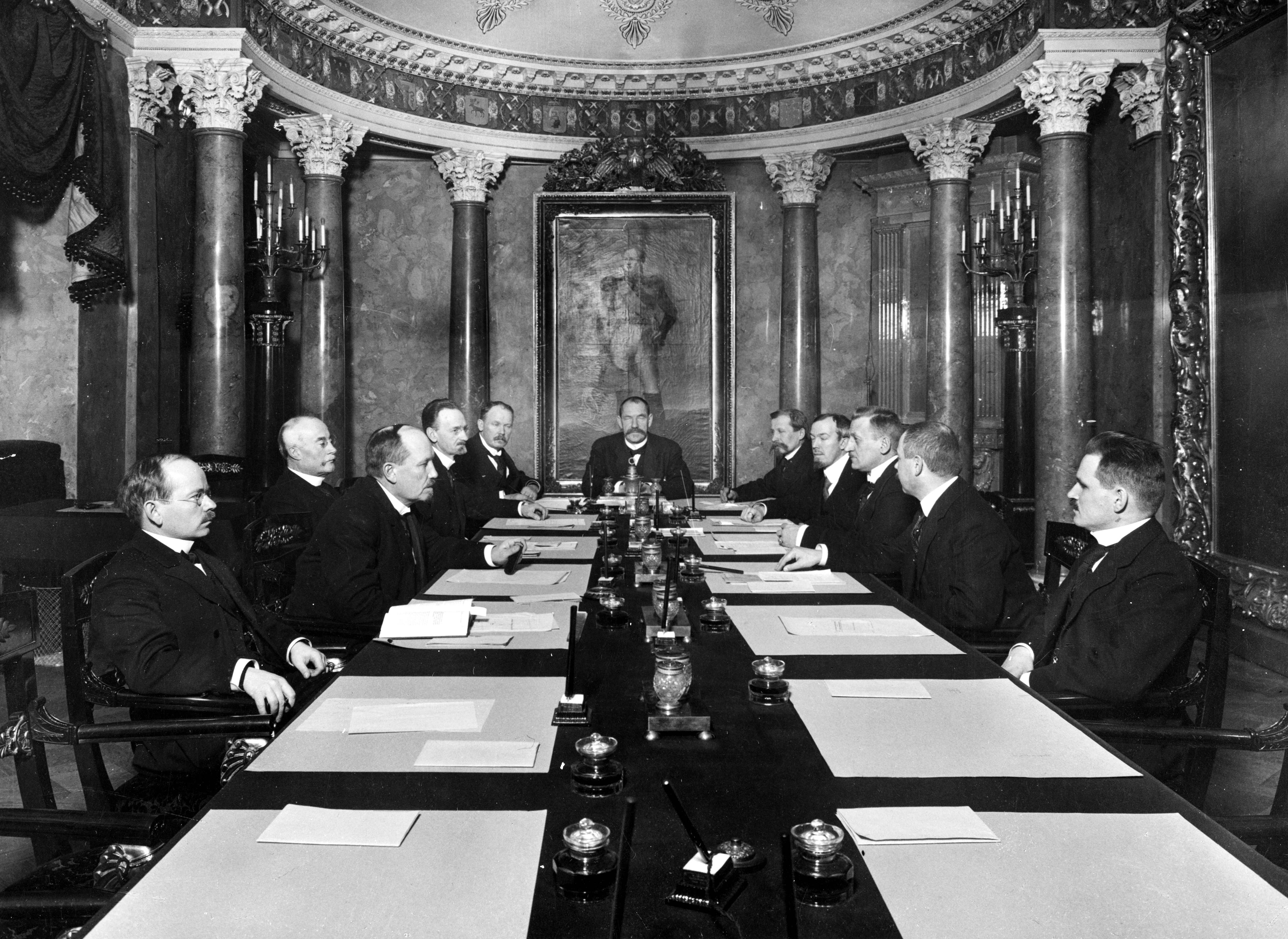 The Finnish Senate of 1917. P.E. Svinhufvud in the middle. The Senate declared Finland independent on 4th December 1917 and it was confirmed by parliament 6th December 1917 which became the independence day of Finland.